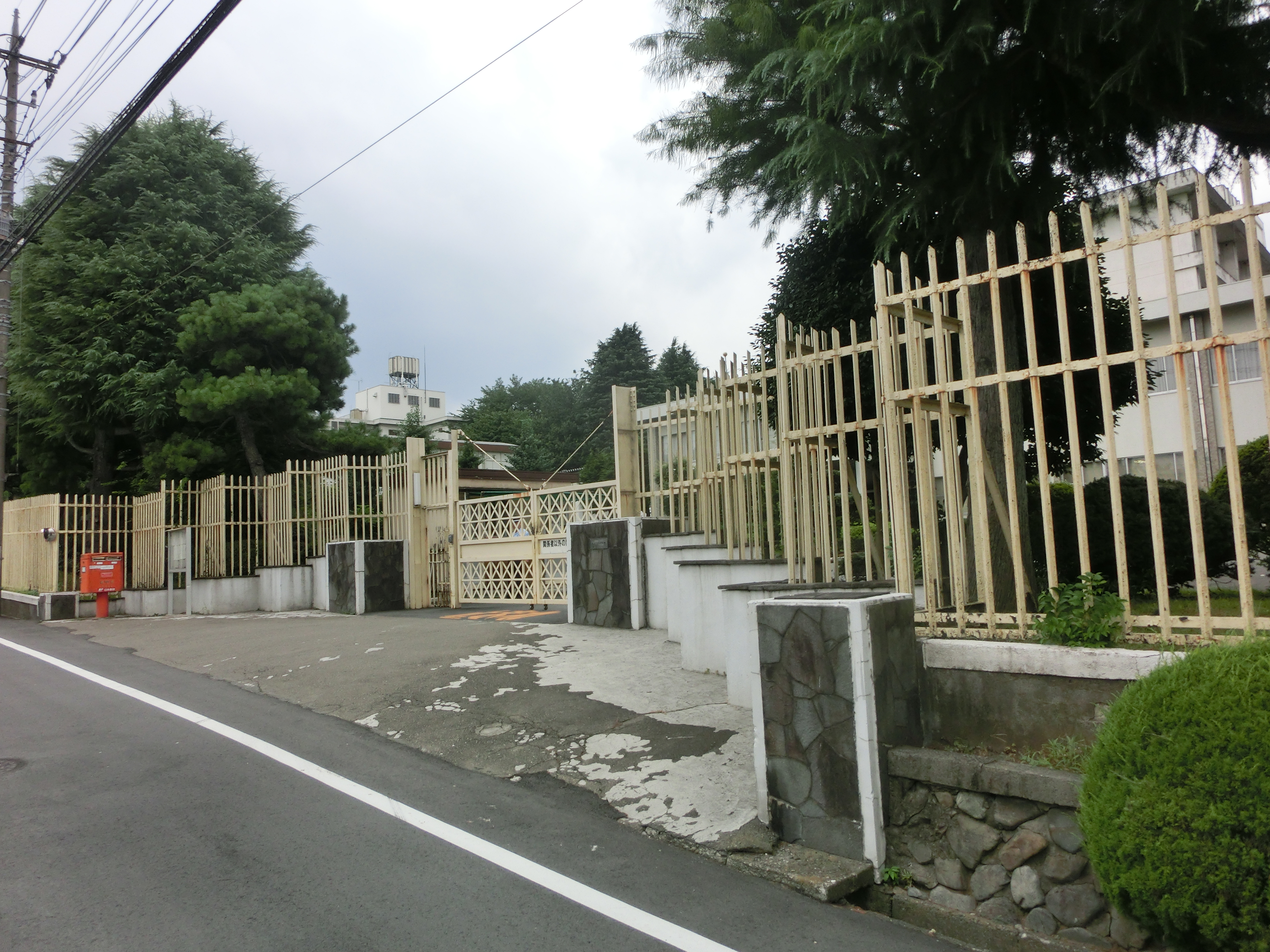 Hachioji Medical Prison